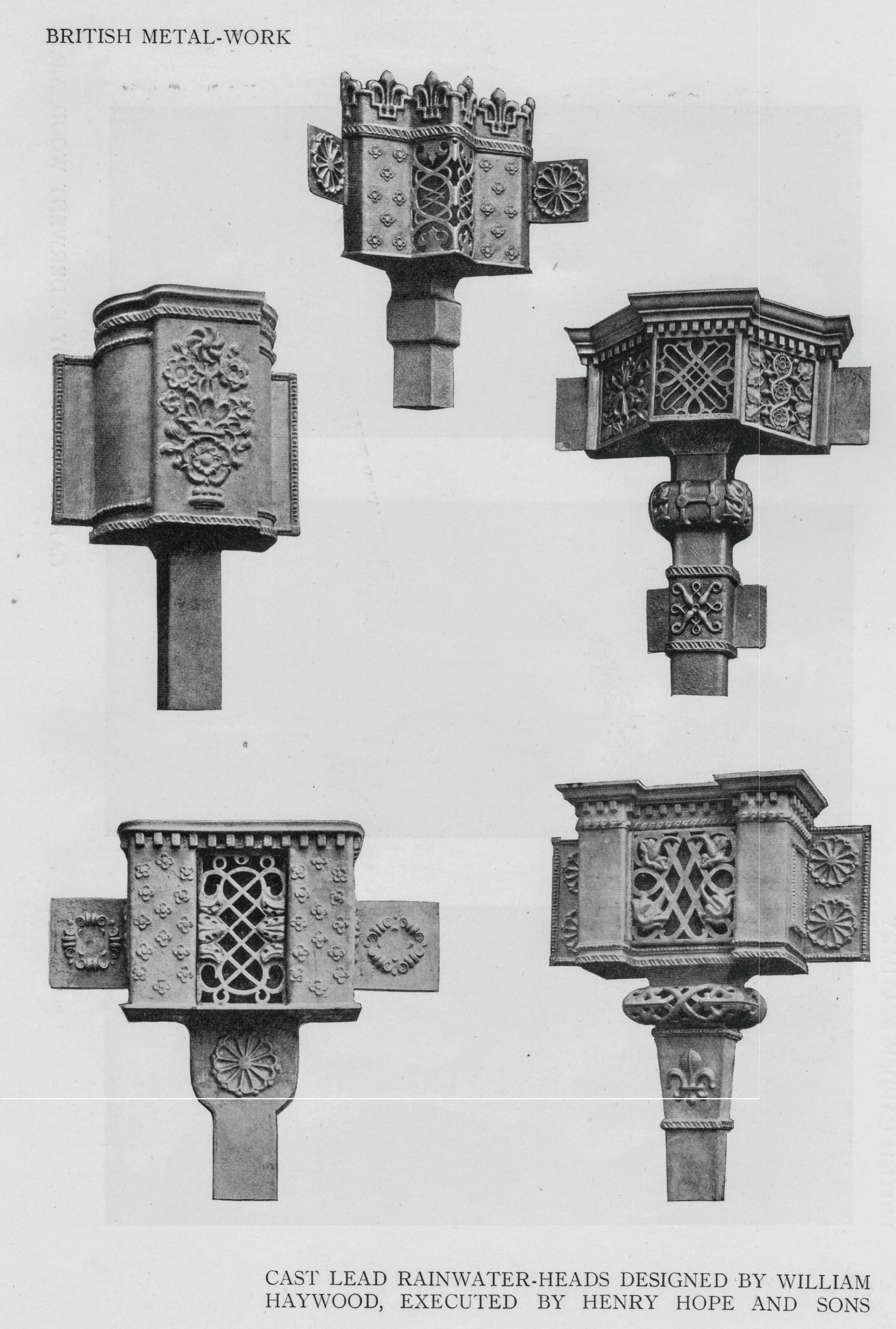 Examples of five rain-hoppers, cast in lead by Henry Hope & Sons, of Smethwick, from designs by William Haywood, architect, of Birmingham.